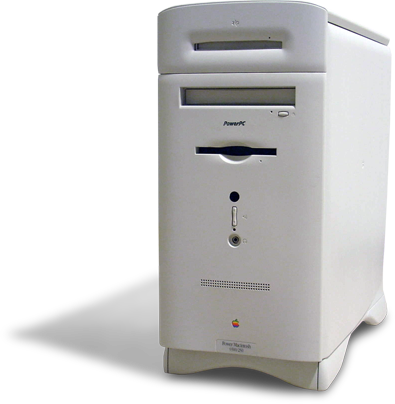 This is a picture I took of my Power Macintosh 6500.